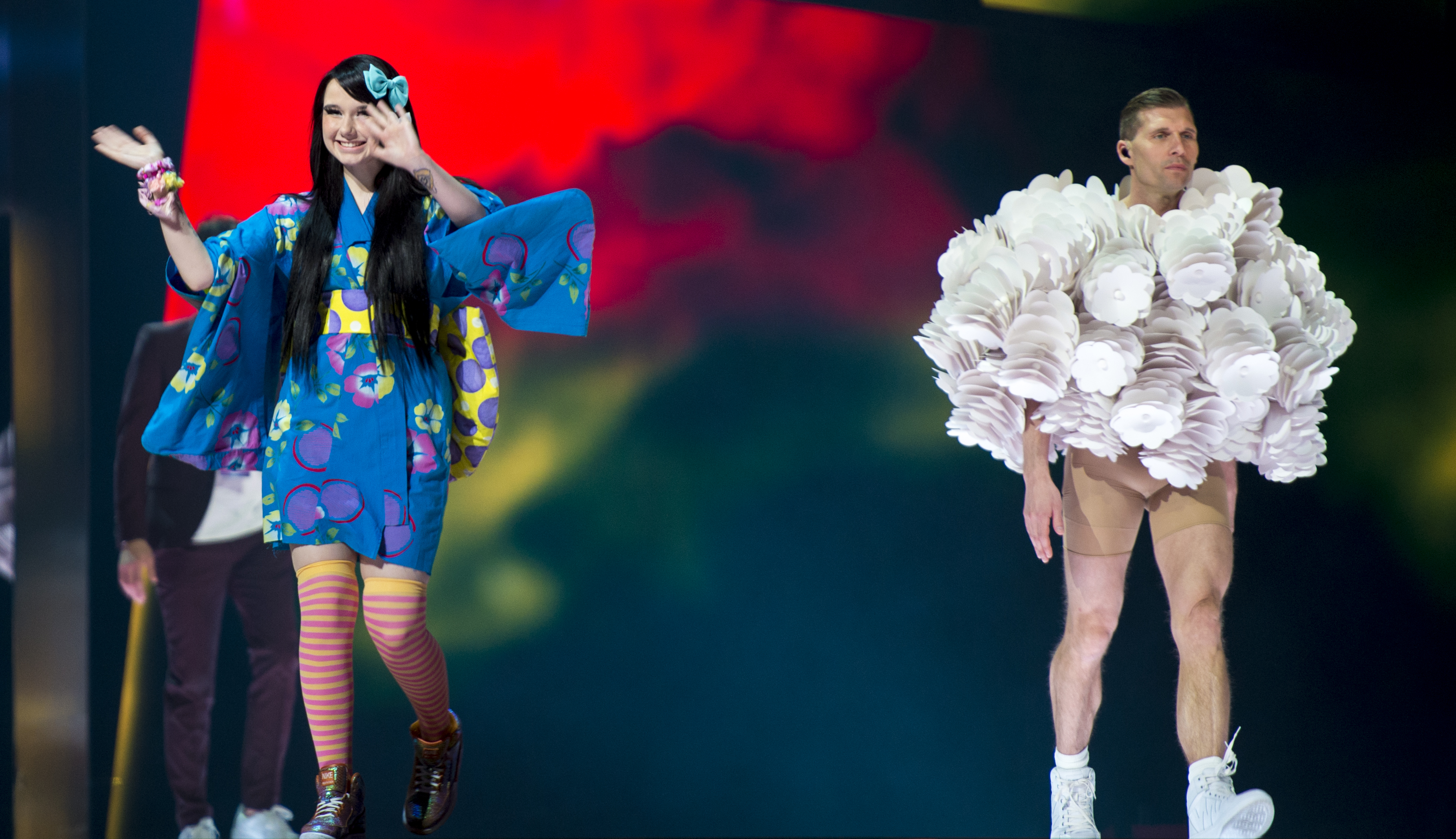 The opening act of the final, during the first dress rehearsal of the Eurovision Song Contest 2016 in Stockholm. (Help translate this text)